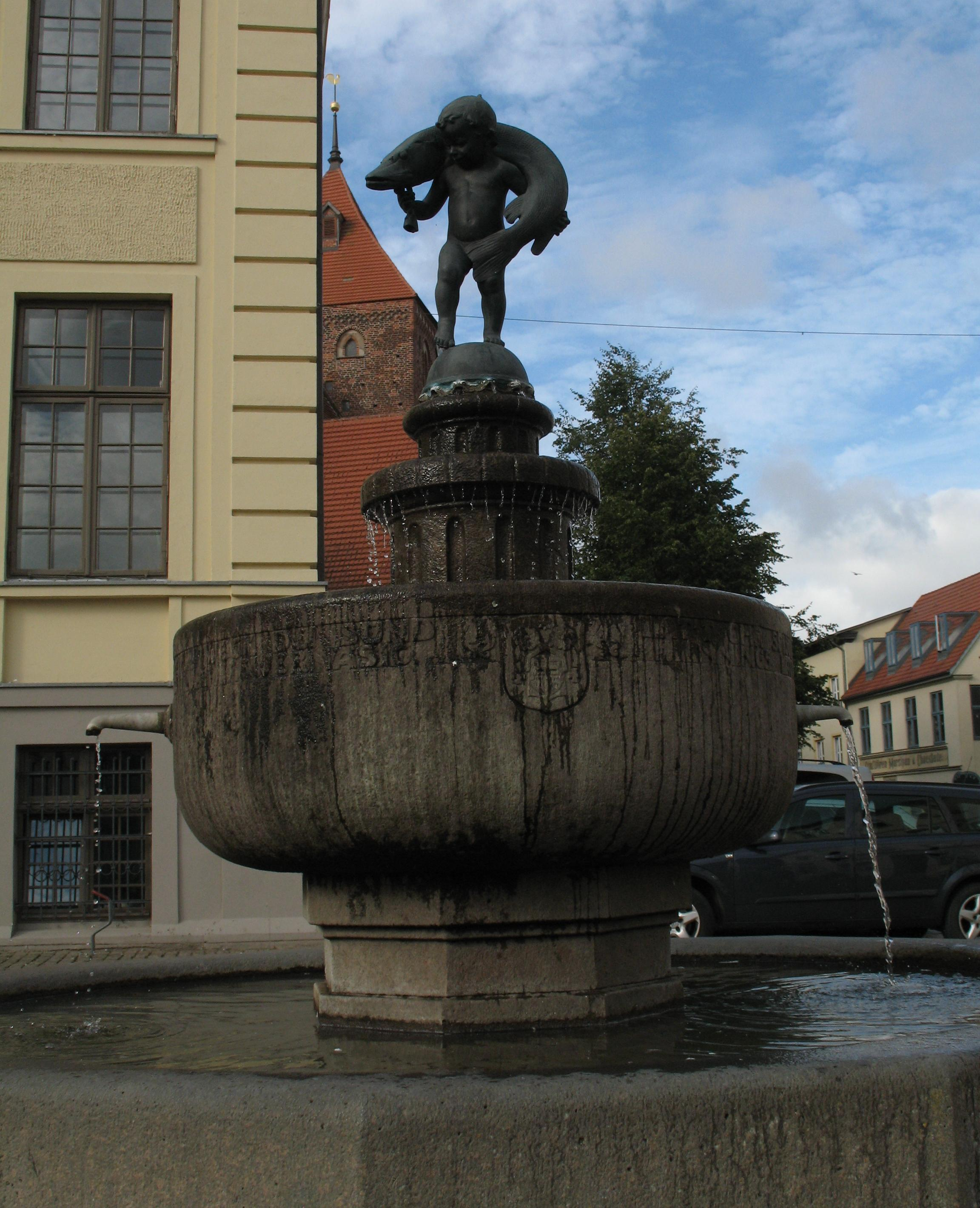 Fountain in Teterow in Mecklenburg-Western Pomerania, Germany